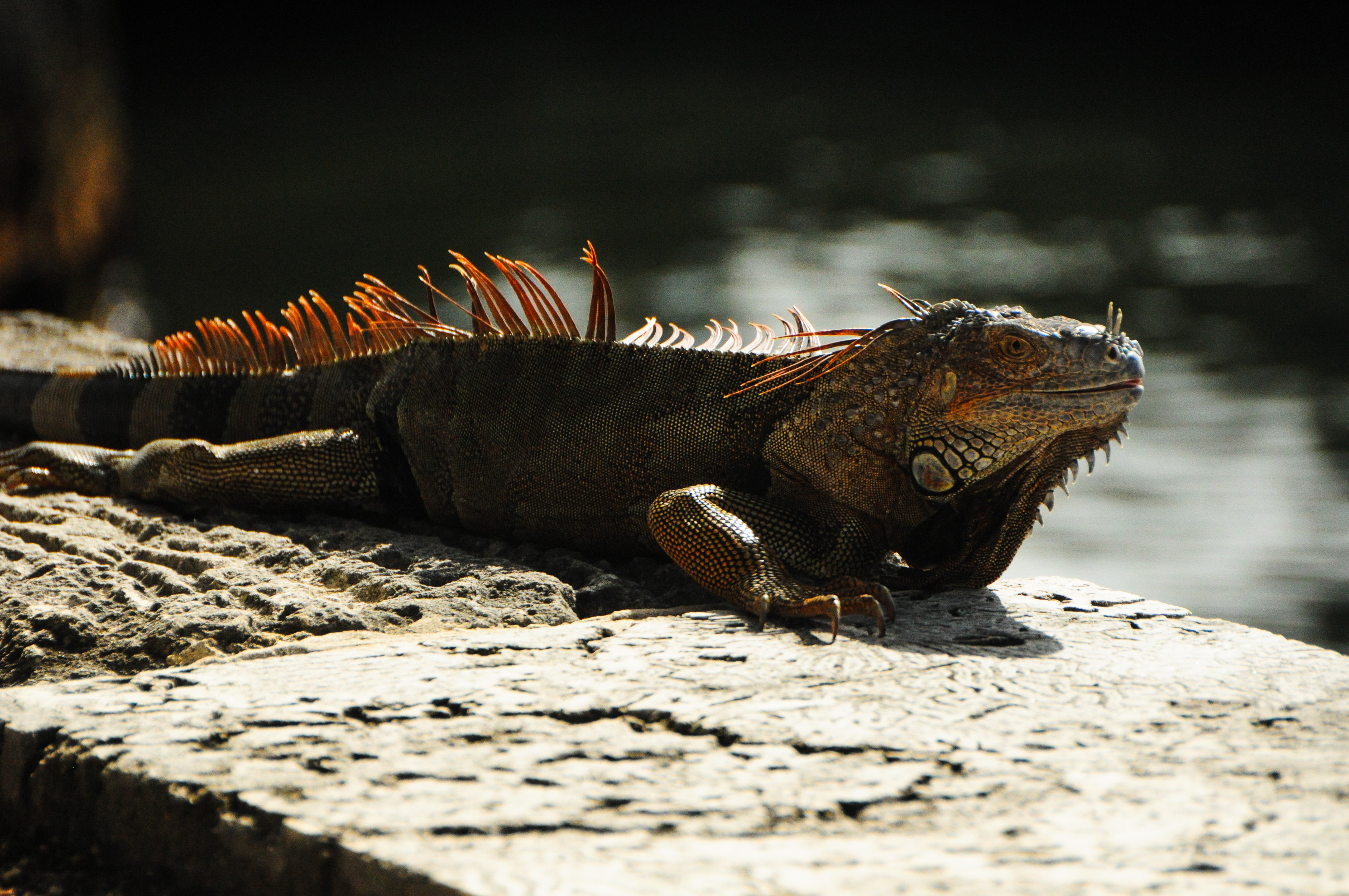 Wildlife found within the gardens at Vizcaya Museum.